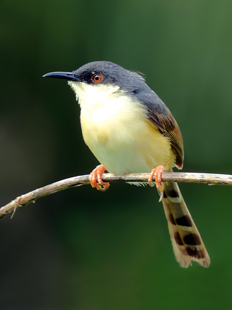 Ashy Prinia Prinia socialis, Mangaon, Maharashtra, India